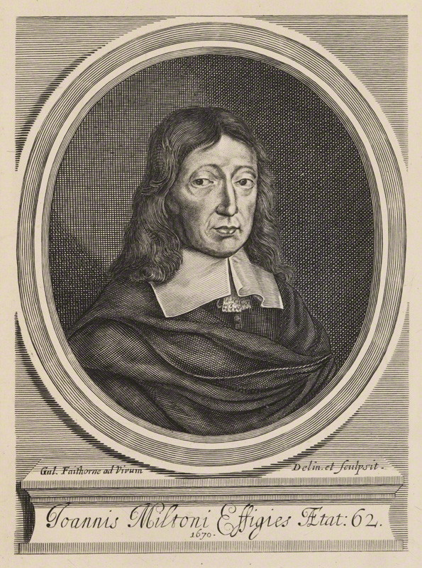 Portrait of John Milton 画像:John Milton.jpg